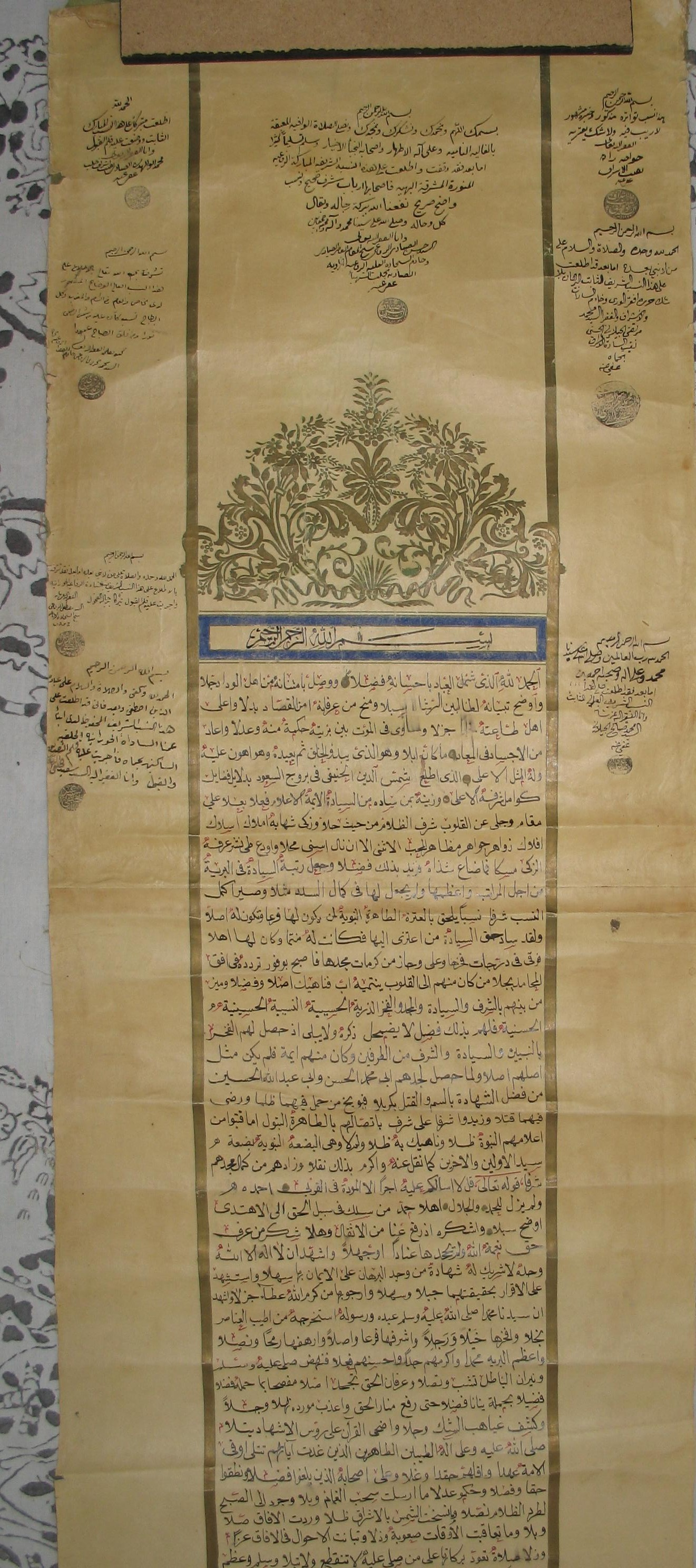 The original header of Al-Hourani family tree, dated in 1519. The tree claim Al-Hourani family as descendant of the prophet Muhammad